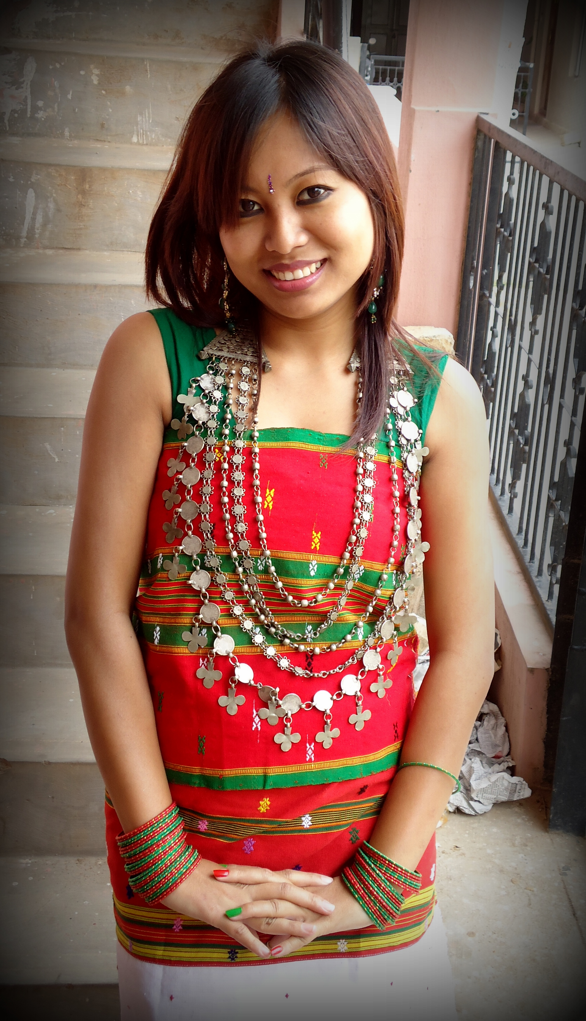 A Tripuri girl seen here wearing the traditional dress "rigwnai" and "risa".